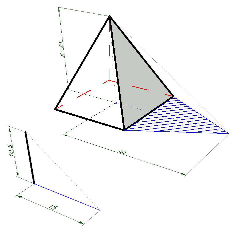 Tales Aplication